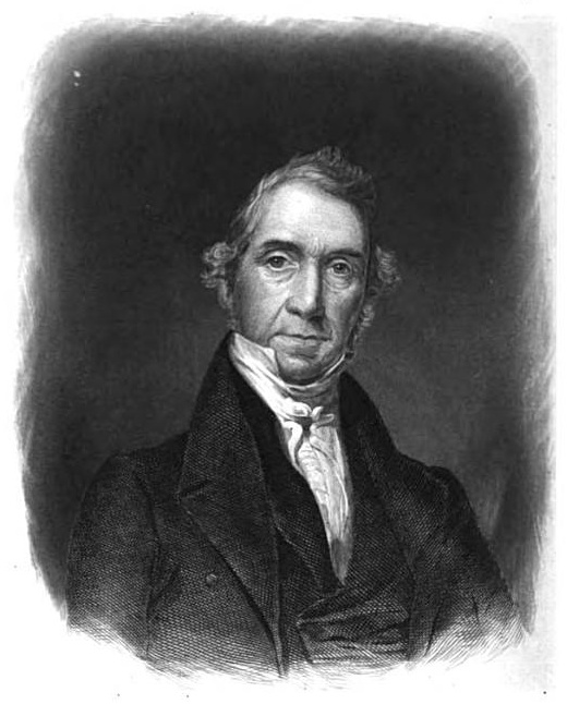 Engraved portrait of Massachusetts politician Marcus Morton.